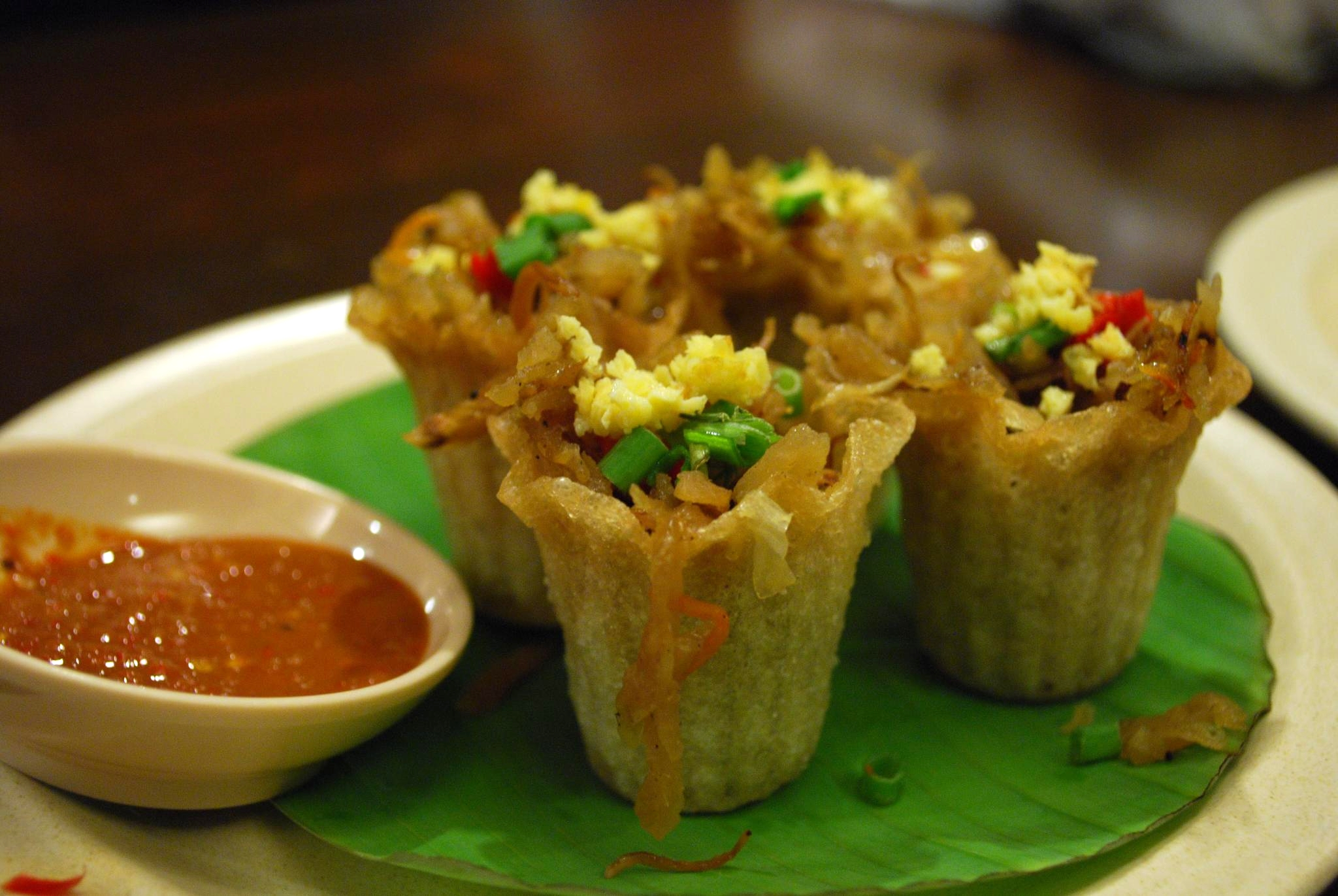 Wasn't feeling my best that day. Lucky Aunty Nat had 粥 plain porridge! :) Aunty Nat 5G, Signature Office The Boulevard Mid Valley Lingkaran Syed Putra 59200 Kuala Lumpur Wilayah Persekutuan Reviews: - Aunty Nat - by Timothy Low, 3 Meals of Goodness, 2007.05.11 - Aunty Nat - TripAdvisor Recipe: - Pie Tee - Recipe by Amy Beh, Kuali, The Star Online